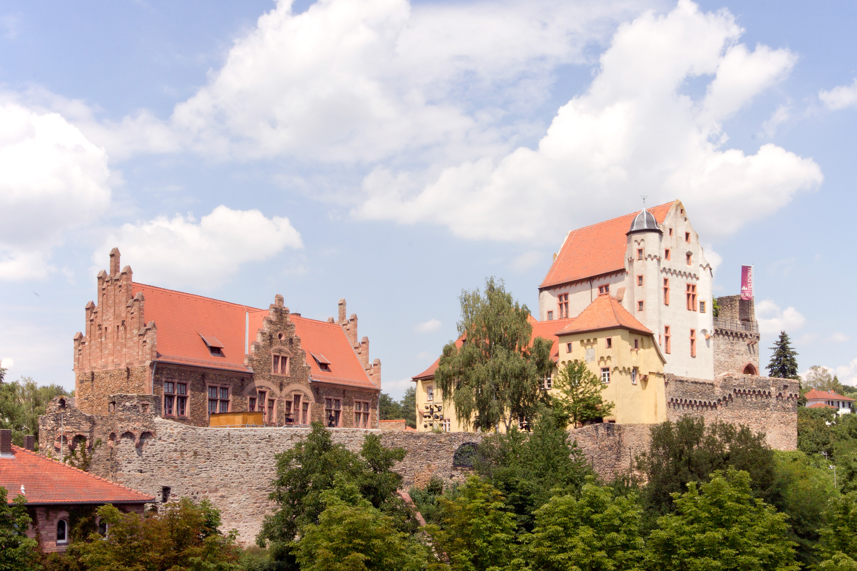 Alzenau Castle, historic building, near Aschaffenburg, Bavaria/Germany